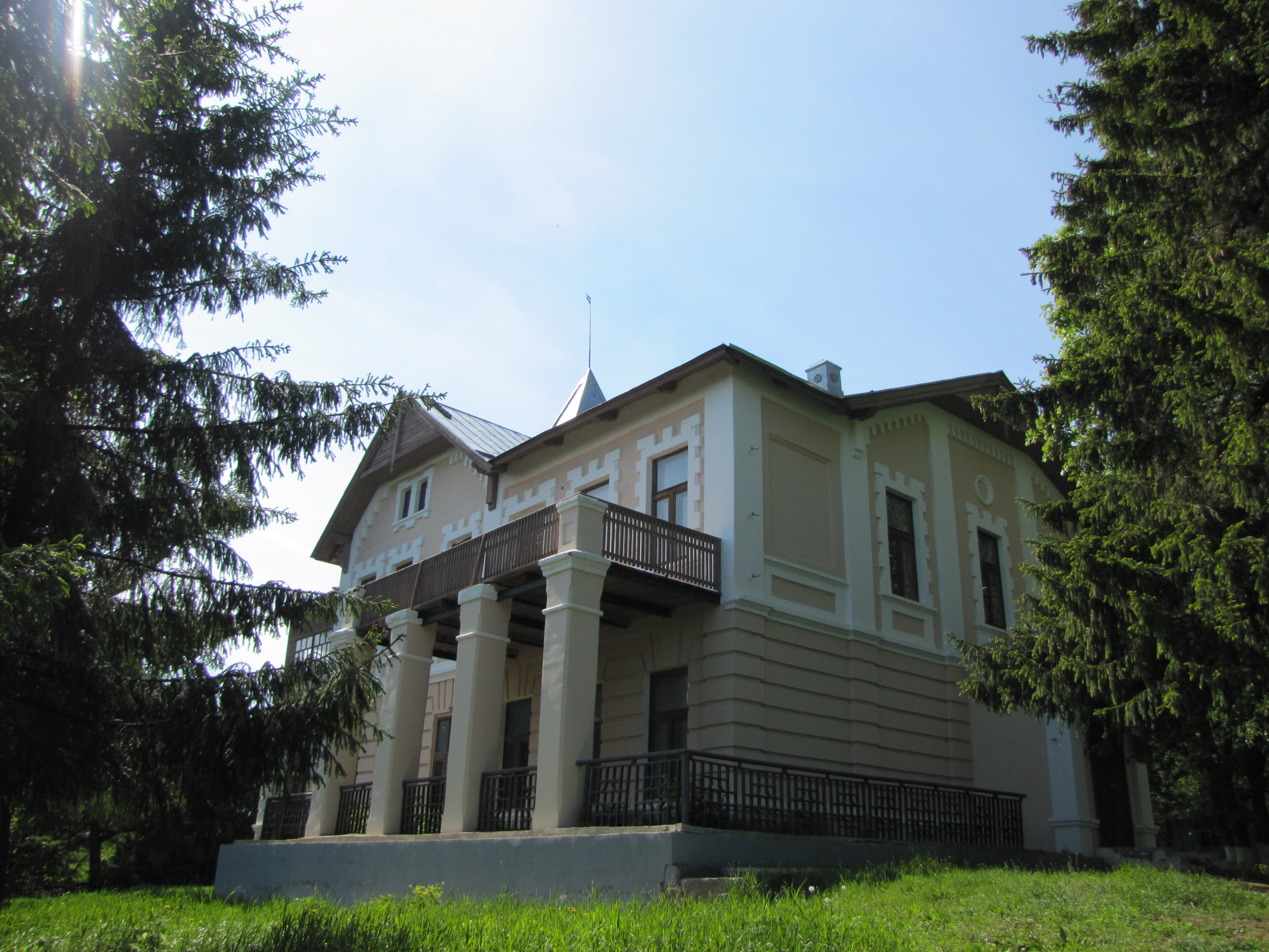 Dolgaya Polyana barton